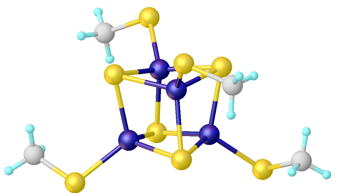 one skewed view of Fe4S4(SMe)4]2- from